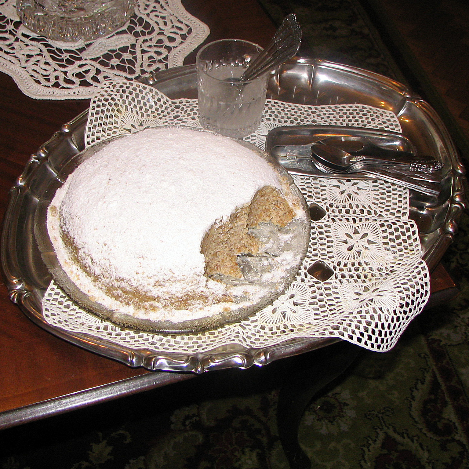 Žito, a dish of minced boiled wheat, sweetened and chopped walnuts